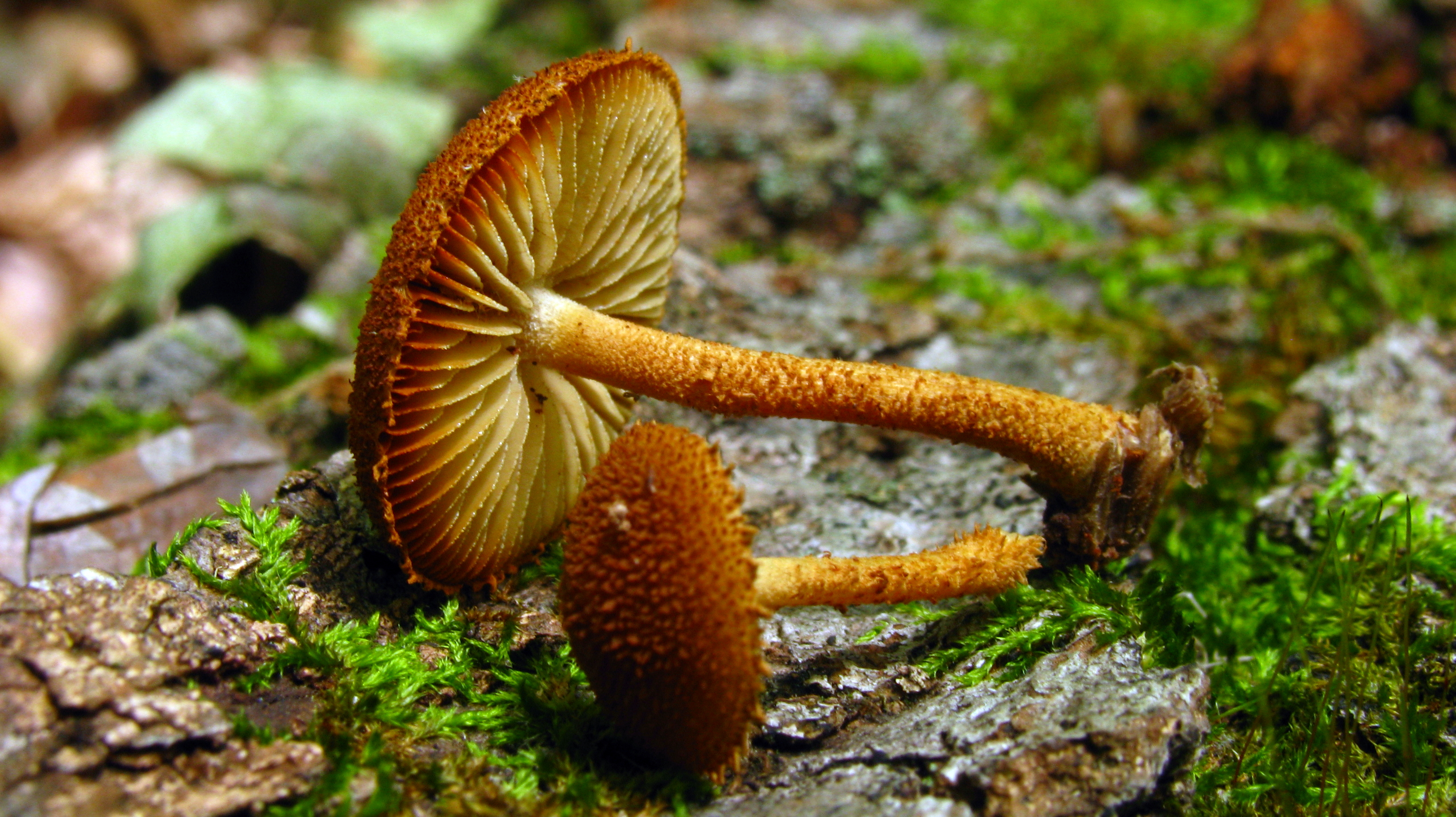 Phaeomarasmius erinaceus Location: Wayne National Forest, Athens Co., Ohio, USA Notes: Some scruffy little brown jobs on the side of a rotting log.